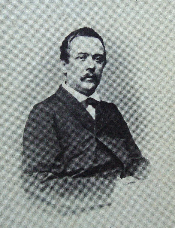 Antoni Jelenski (1818-1874)